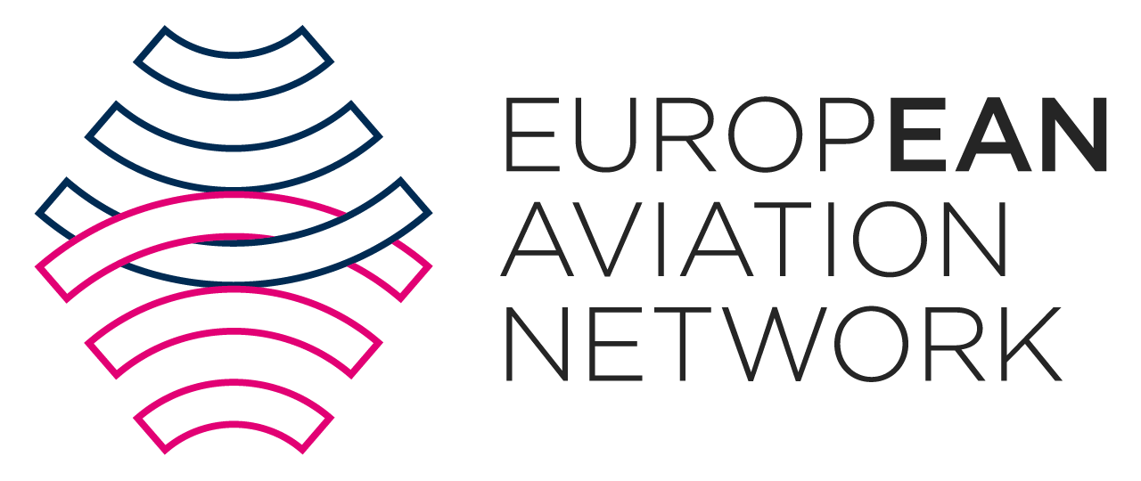 The logo of European Aviation Network